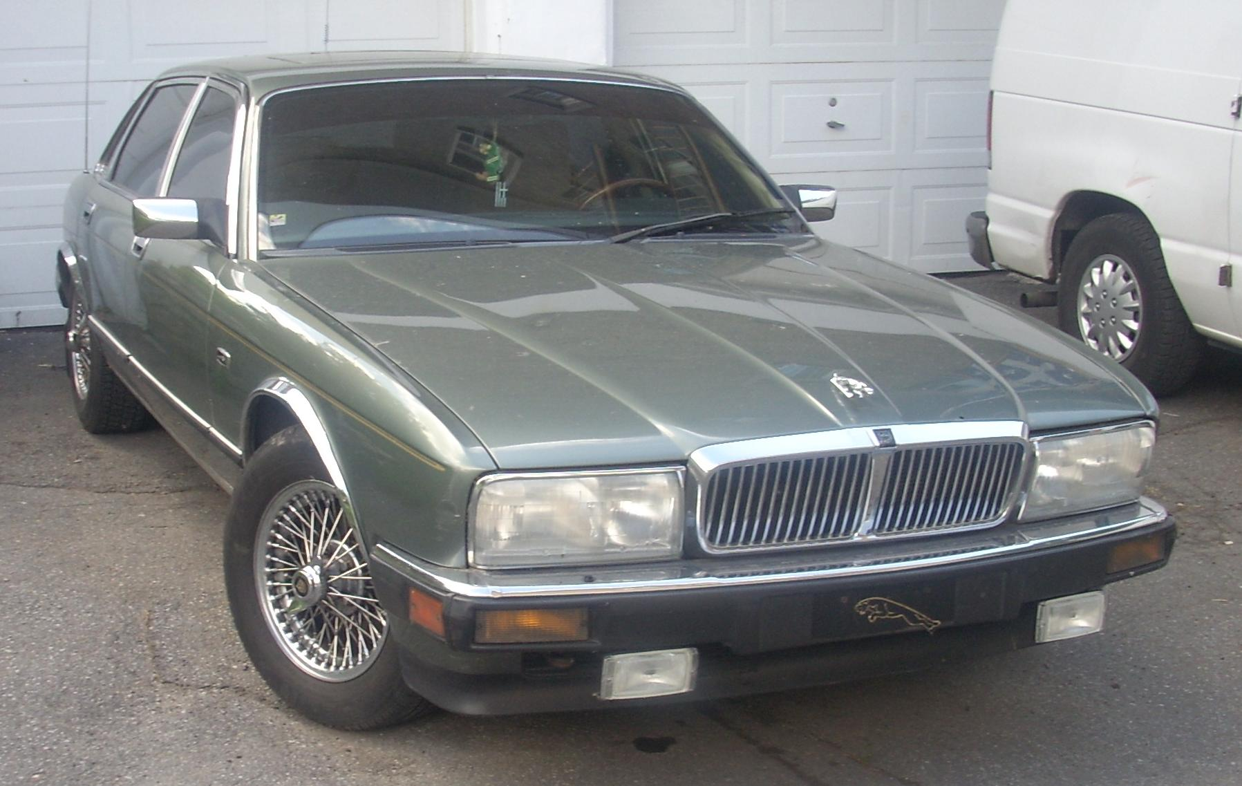 1986-1989 Jaguar XJ photographed in Montreal, Quebec, Canada.